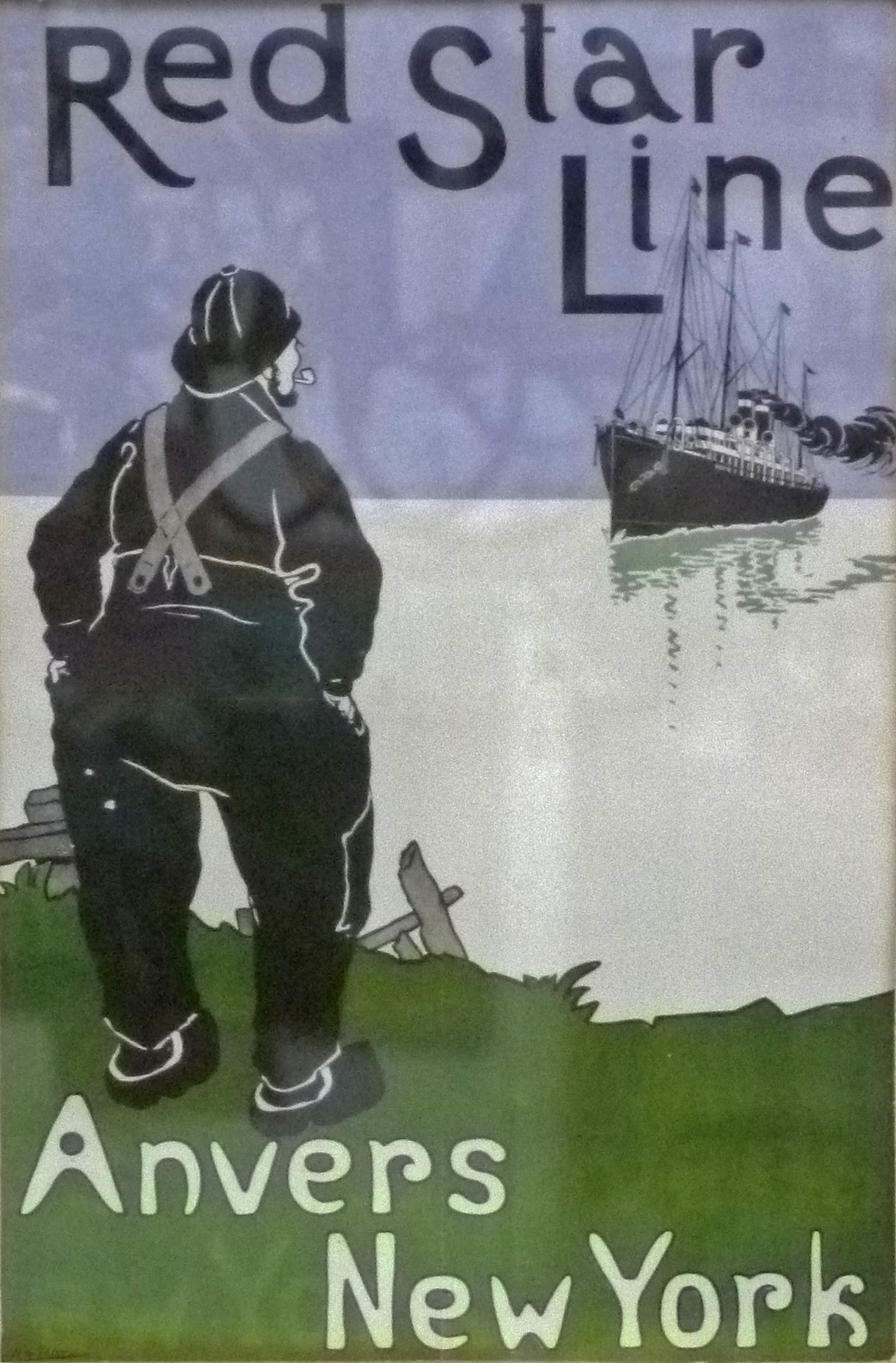 poster Red Star Line door Henri Cassiers (1858-1944), privébezit